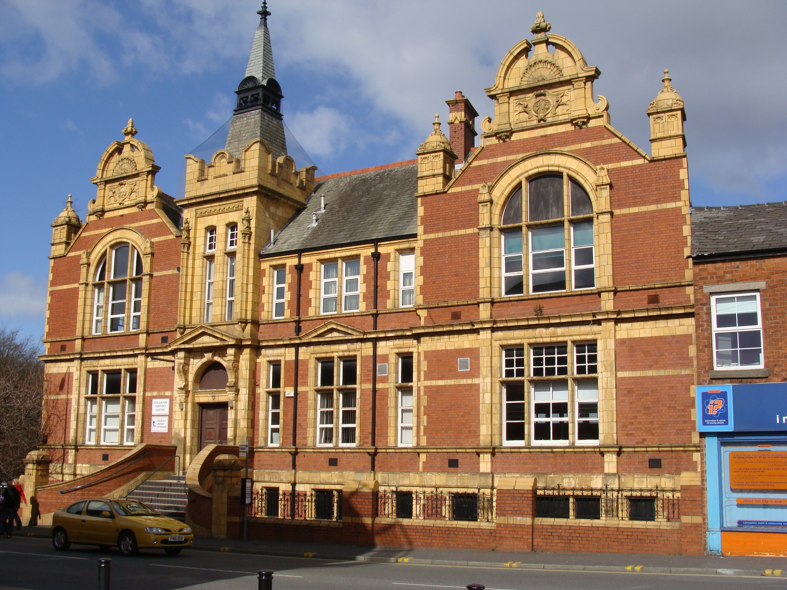 Chorley, Lancashire. Once the Adult Education Institute, and Chorley Grammar School before that, this building in the centre of town is now Chorley Library.